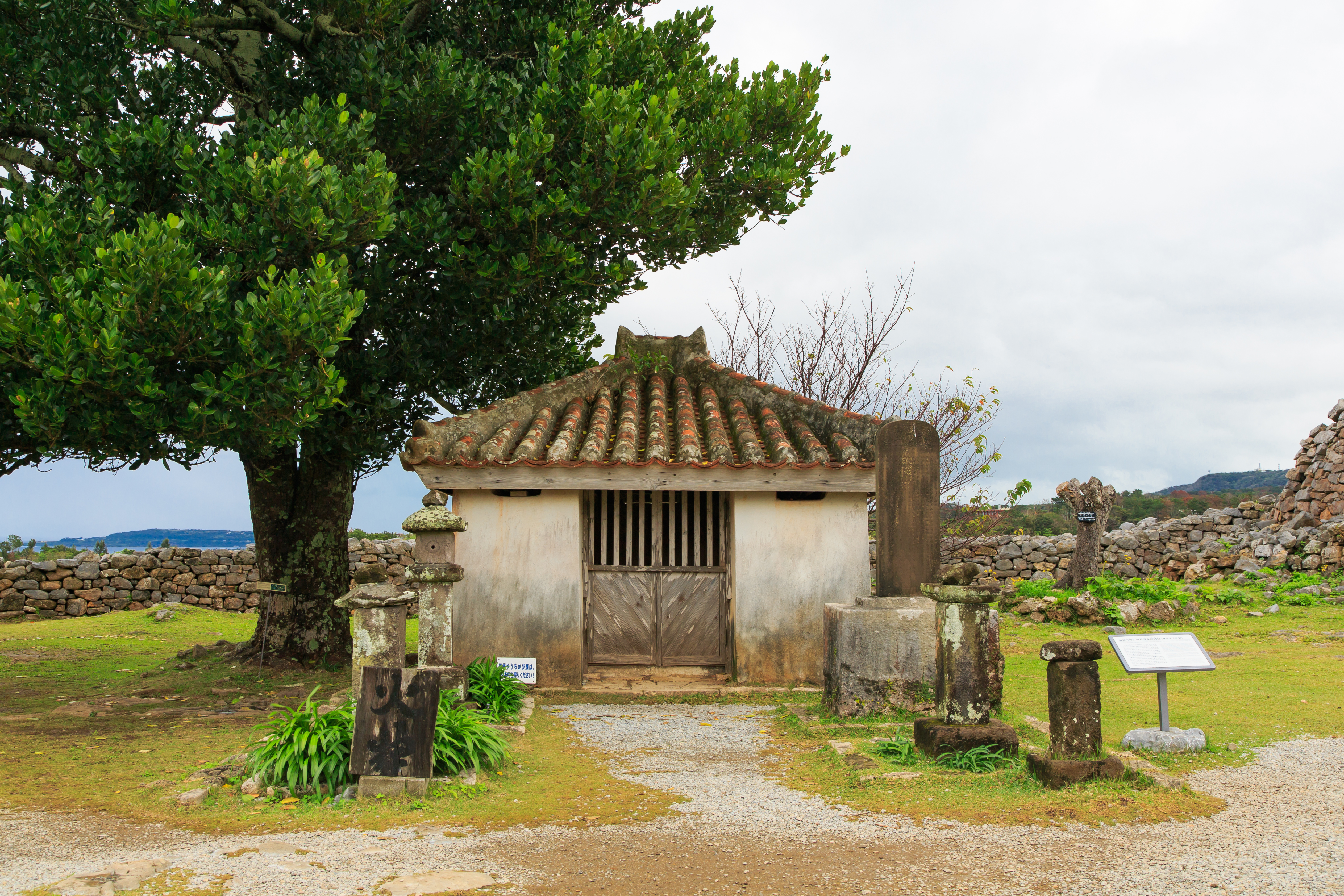 Nakijin, Okinawa, Japan: Jonai Shitano Utaki a sacred place and shrine on the compund of the Nakijin Castle.